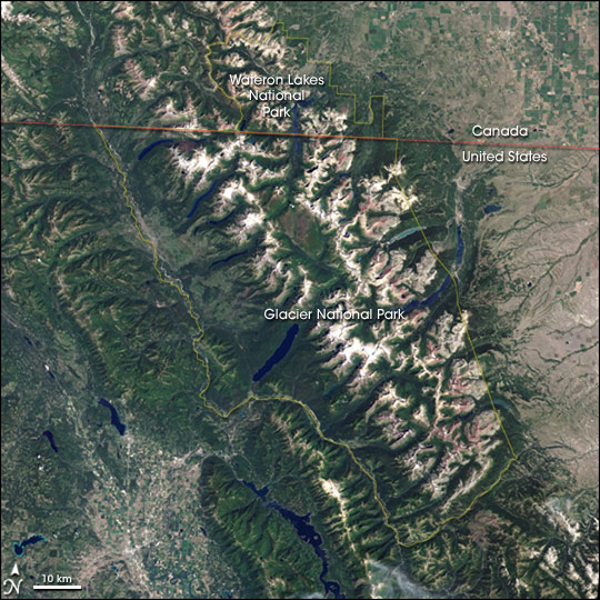 Landsat 7 natural-color image of Glacier National Park (USA) and Waterton Lakes National Park.